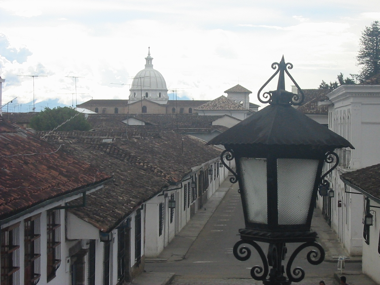 Colonial downtown of Popayán - Colombia